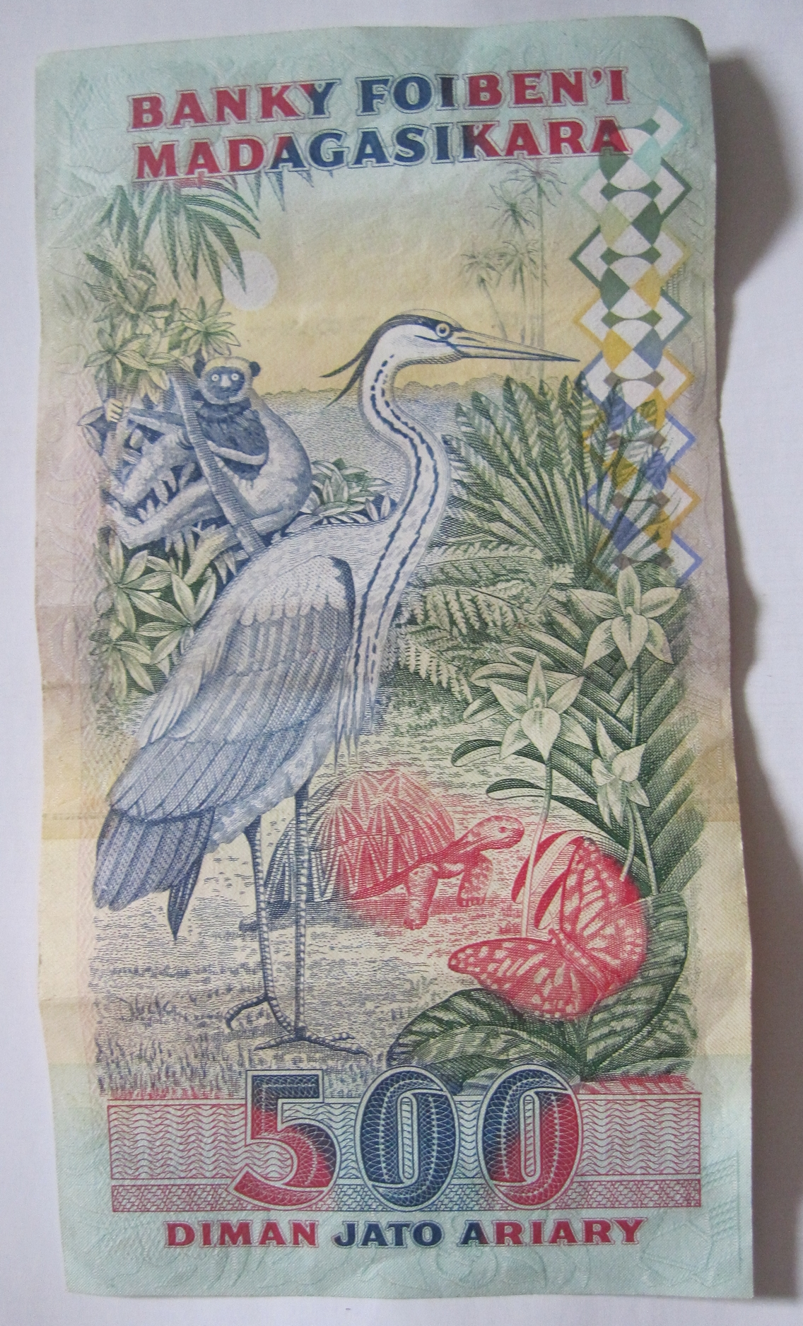 Madagascar banknote of 2500 Francs Malgache from 1993